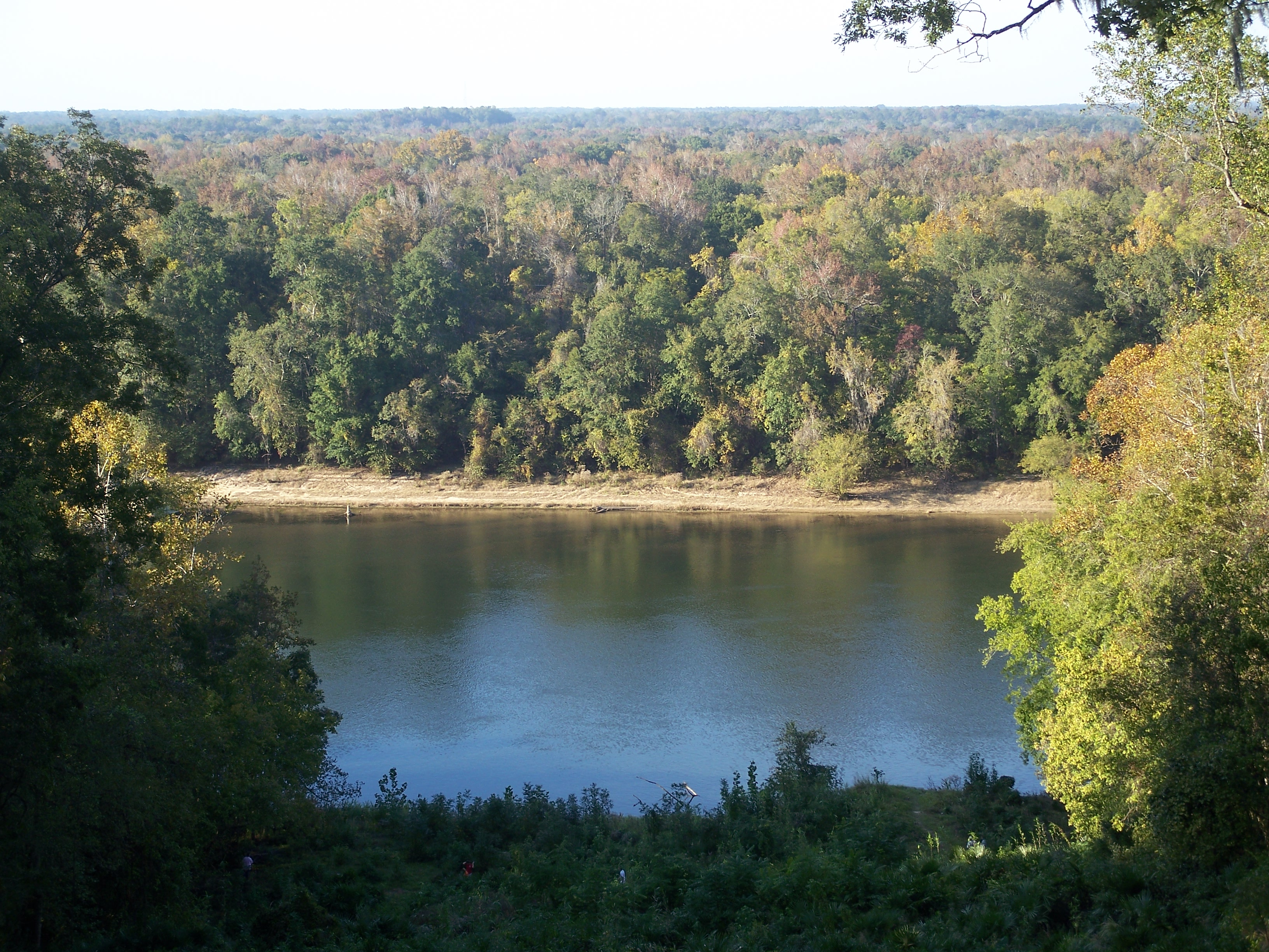 View of the Apalachicola river from behind the Gregory House in Torreya State Park